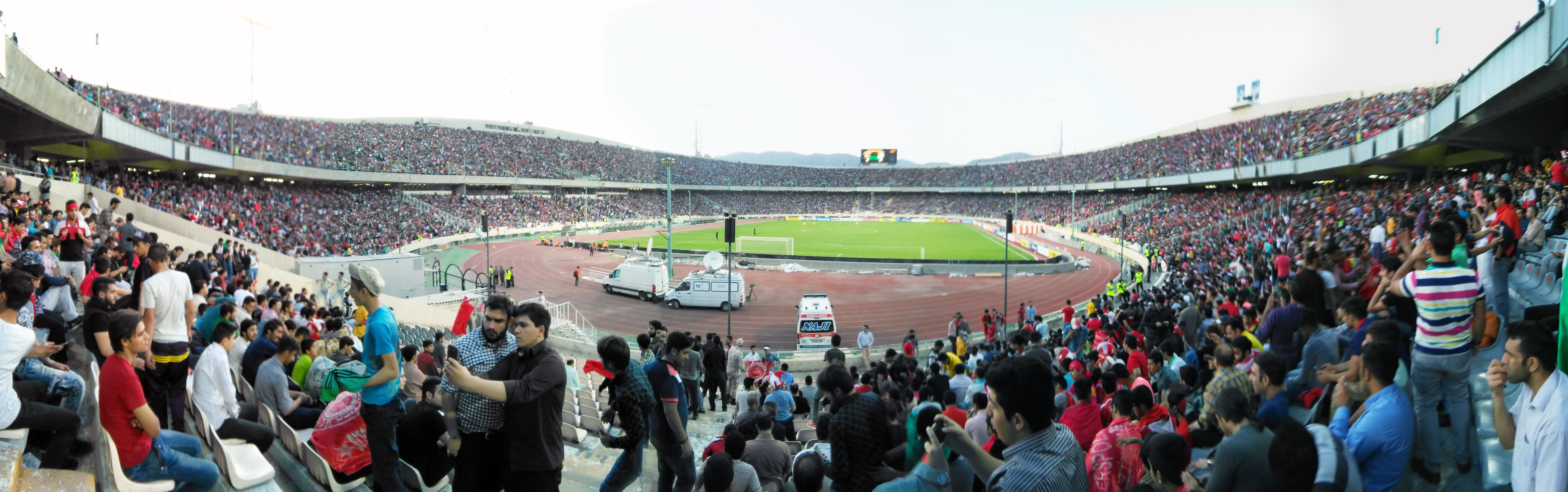 Persepolis VS Al-Nasr 9 April 2015 in Azadi Stadium